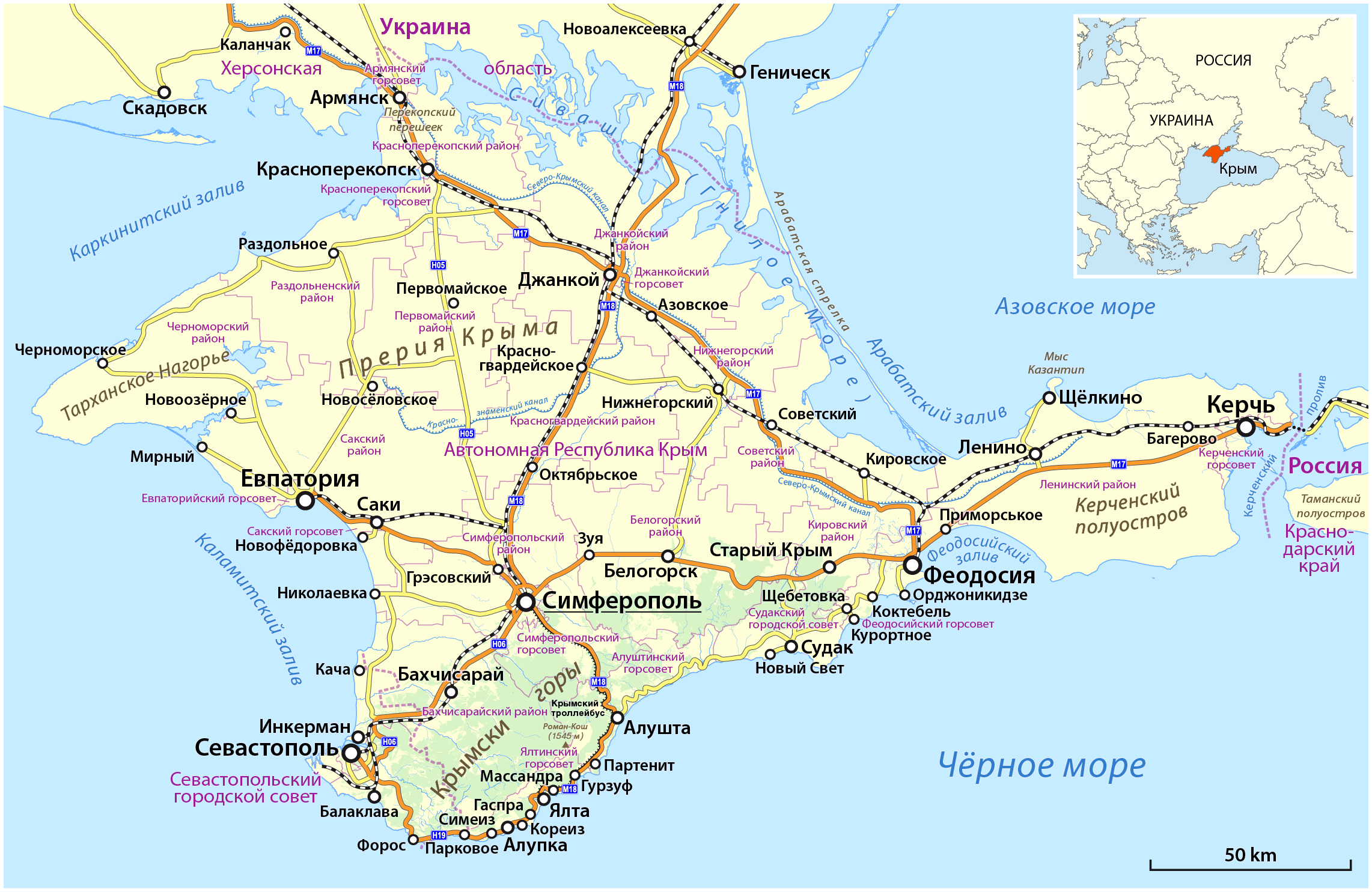 Map of the Crimea